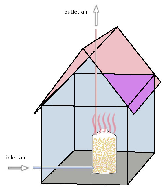 Schematic of the compost heater silo.